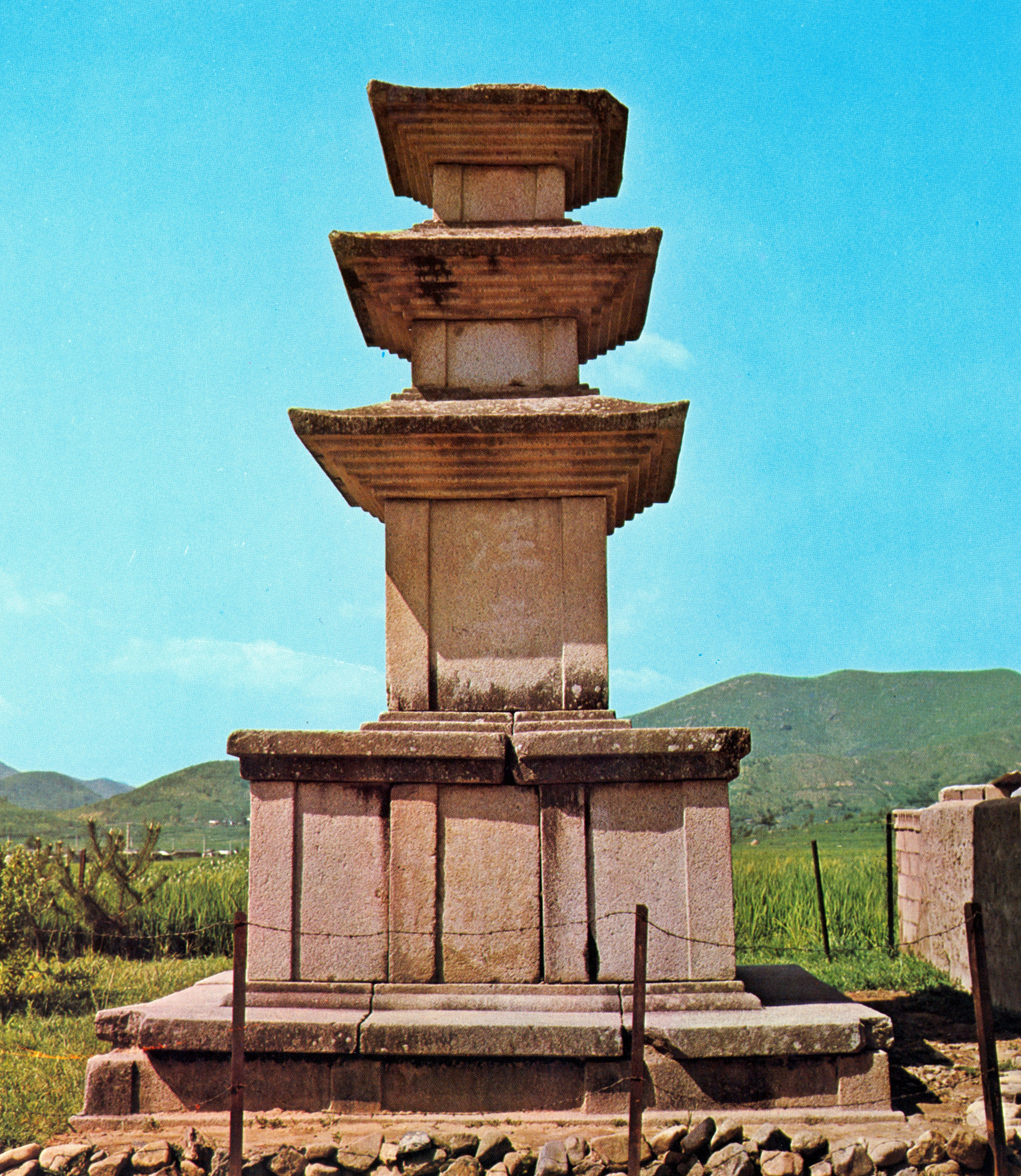 Three-story Stone Pagoda at Bongki-ri in Cheongdo, Korea